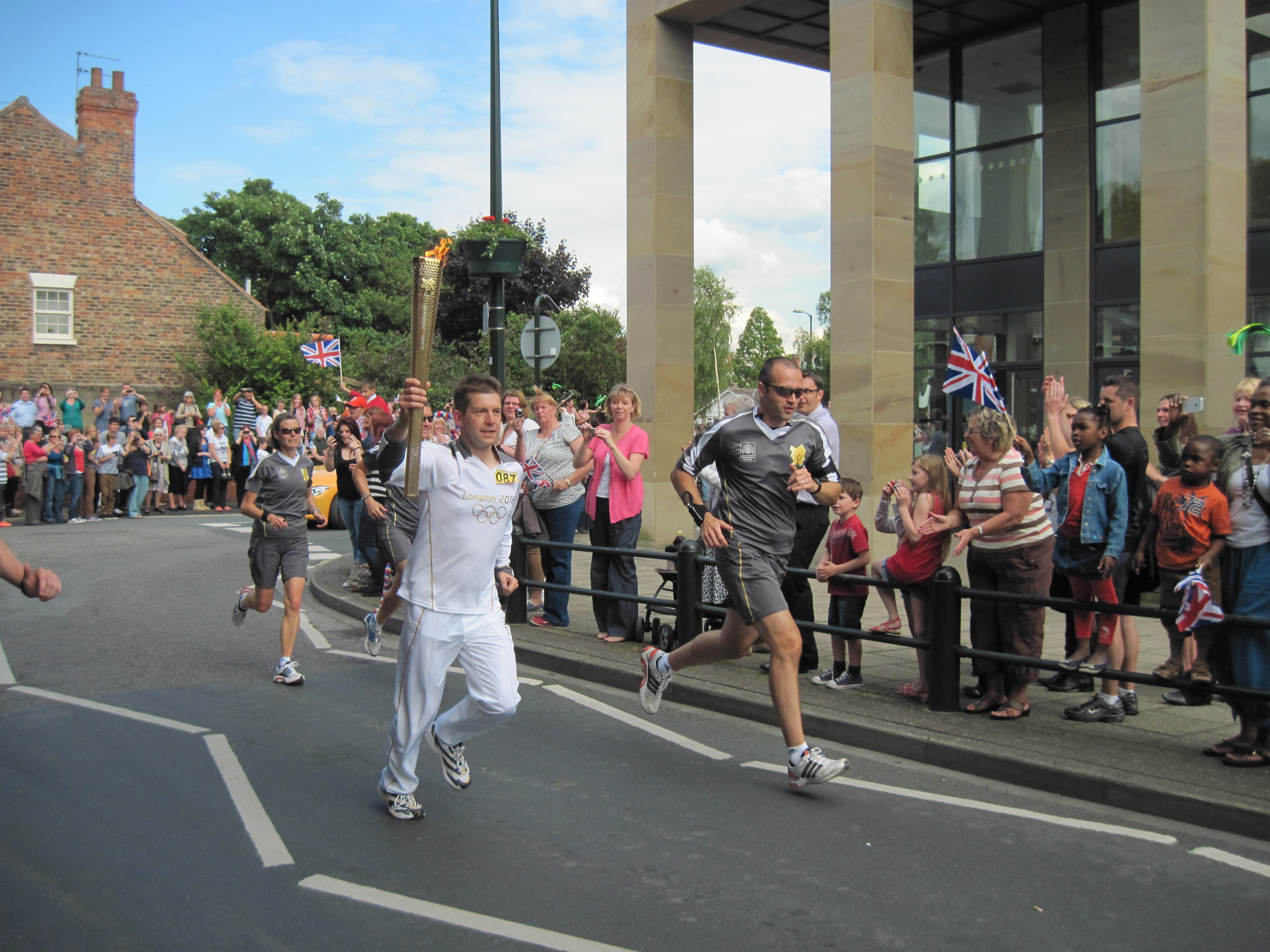 Olympic Torch in BeverleyBeverley, East Riding of Yorkshire, England.The torch enters Champney Road on its passage through Beverley.